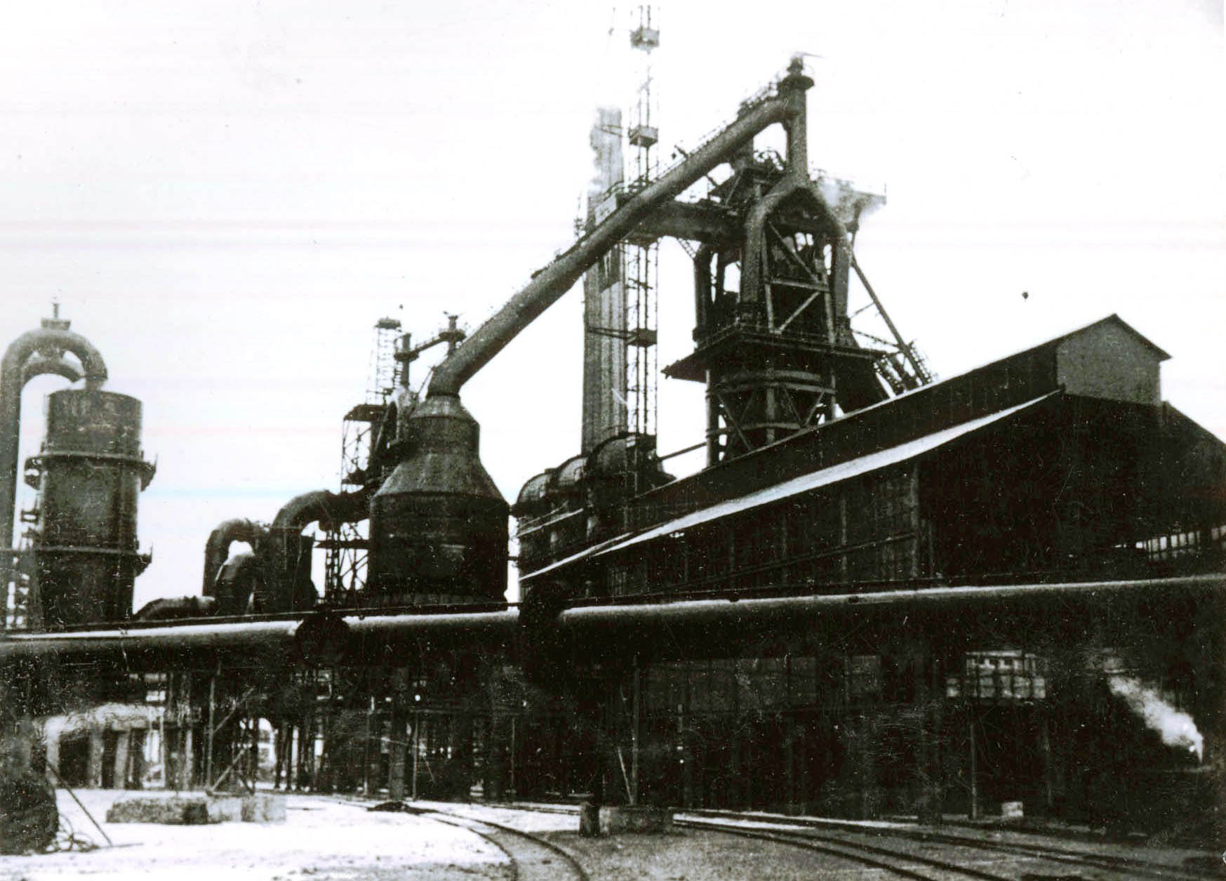 Hunedoara steel works.